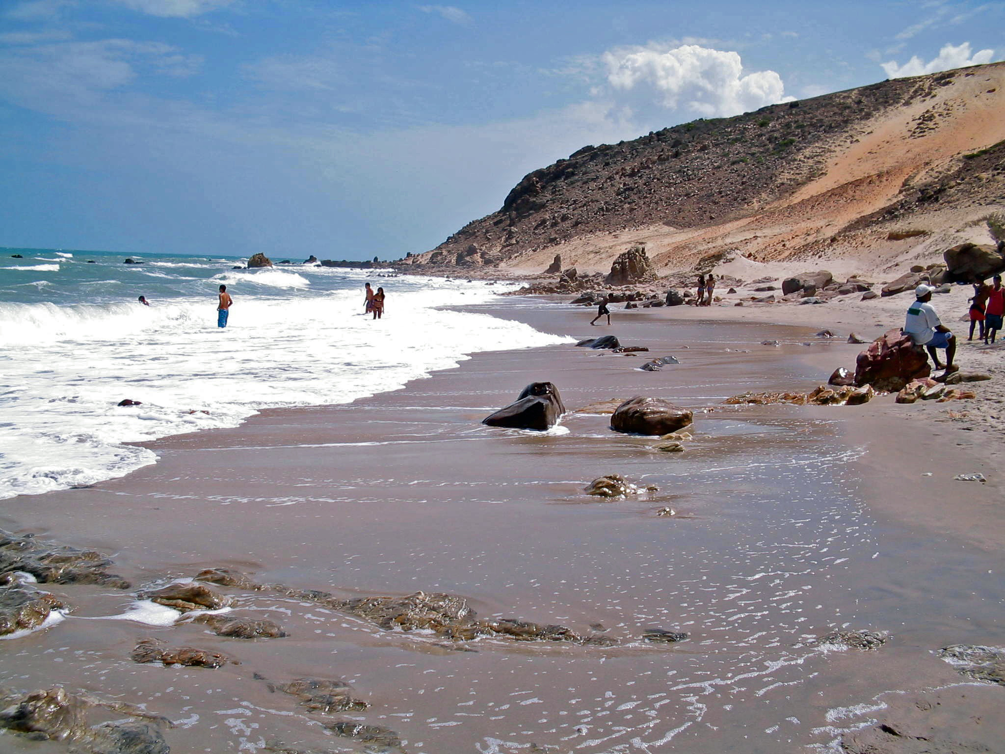 Jericoacoara beach, Jericoacoara, Brazil. Photo taken by Claudia Rayanna Silva Mendes in 2004.